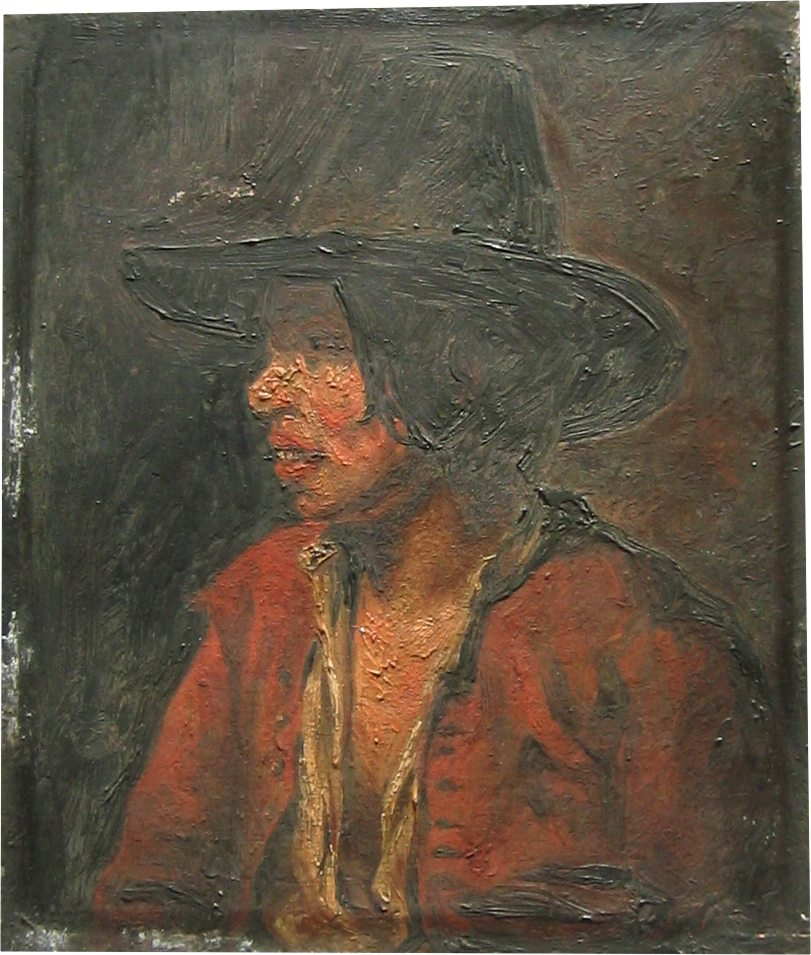 A painting by Piet Verhaert,Typical style, boy with hat